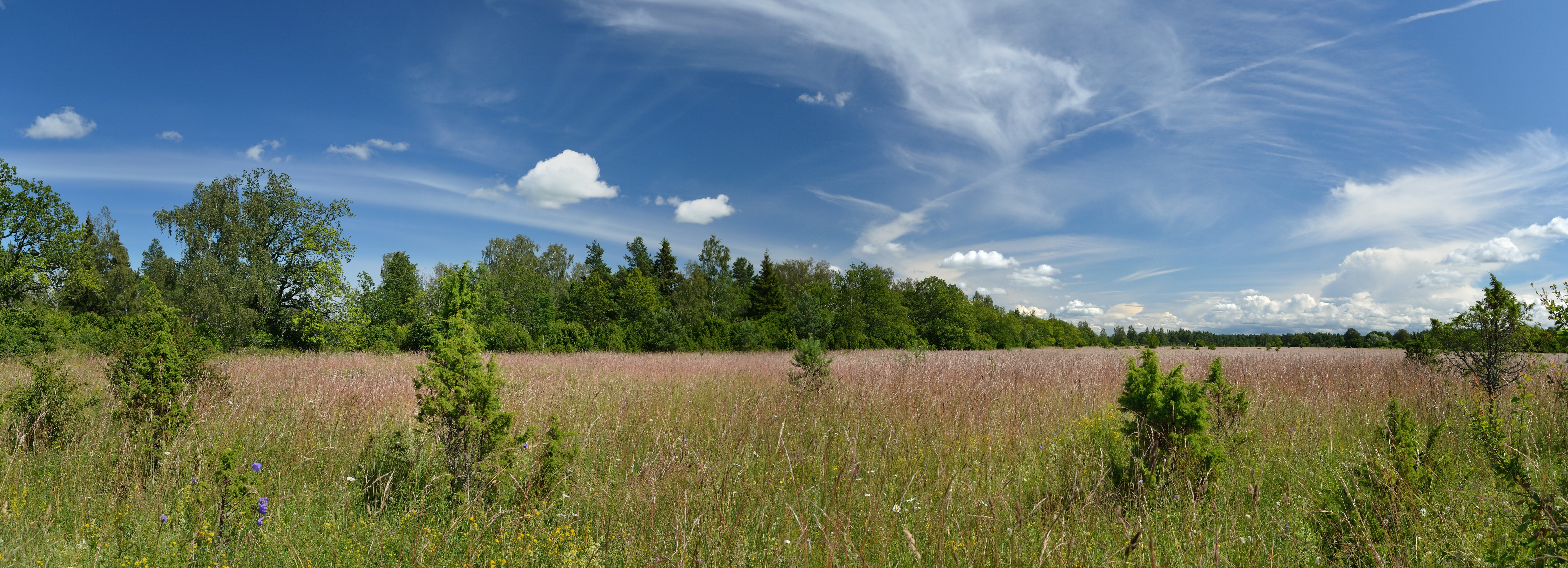 Alvar (landform) in Keila